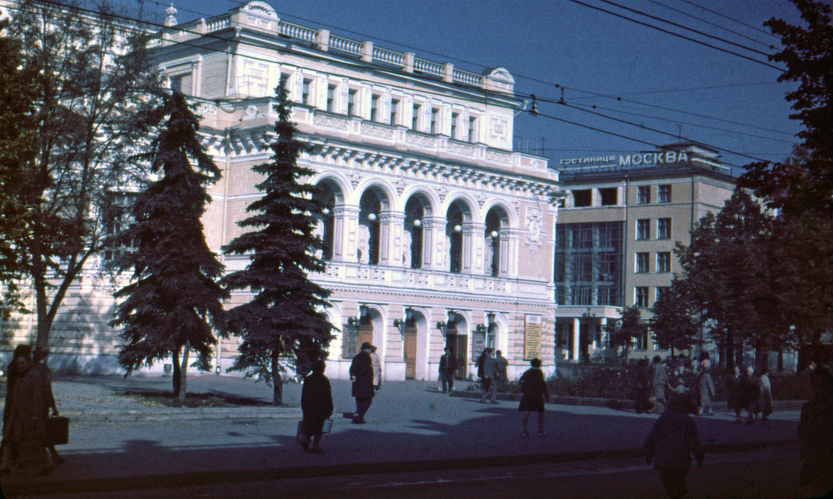 Gorky city. Drama theatre and Moskva Hotel (demolished in 1997) on Sverdlov Street (now Bolshaya Pokrovskaya).